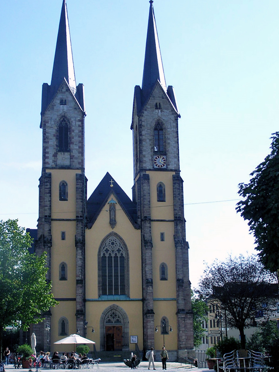 Marienkirche (kath.) in Hof, Germany Source: Eigene Fotografie